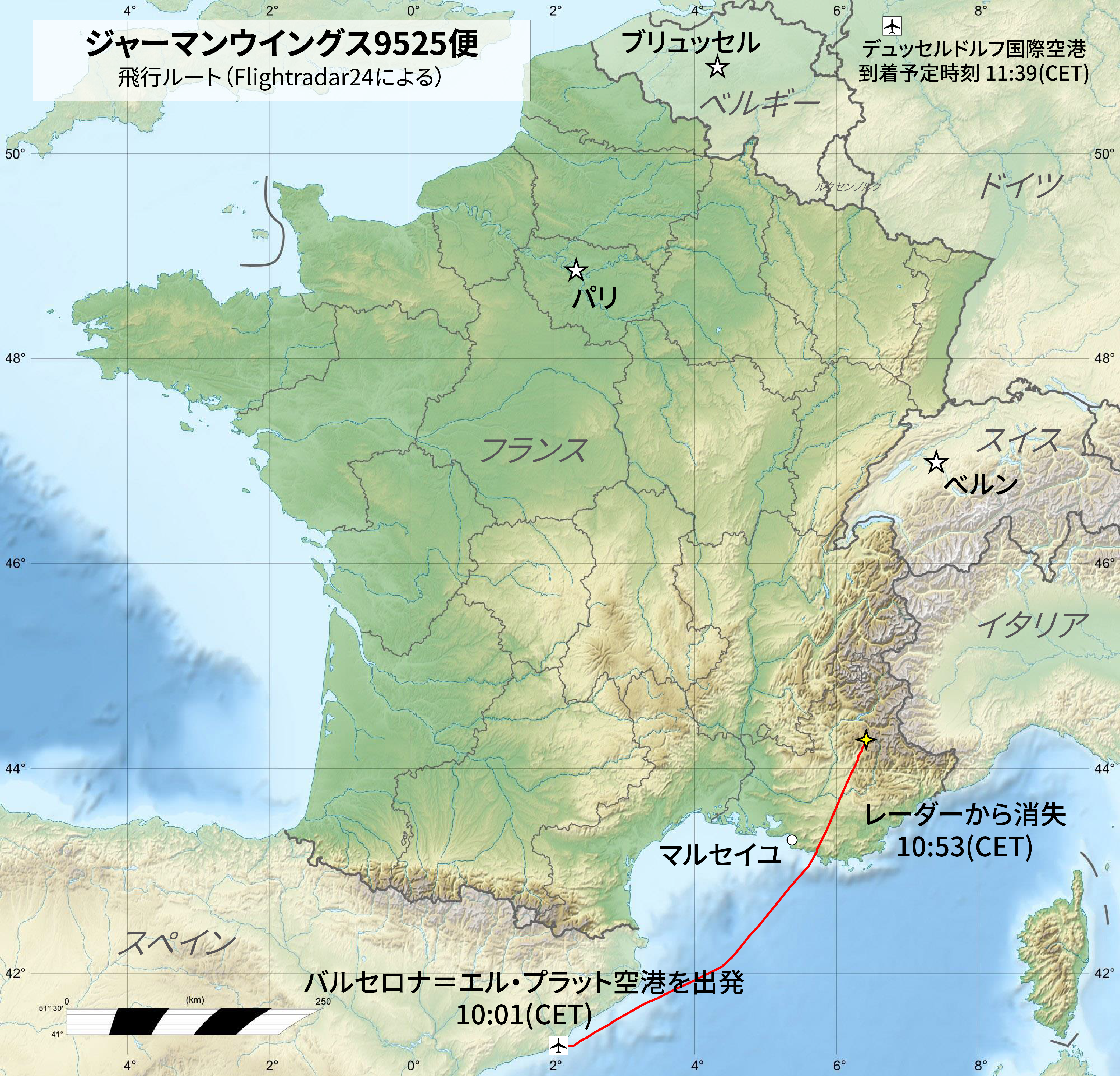 Flightpath of Germanwings Flight 9525 in Japanese.